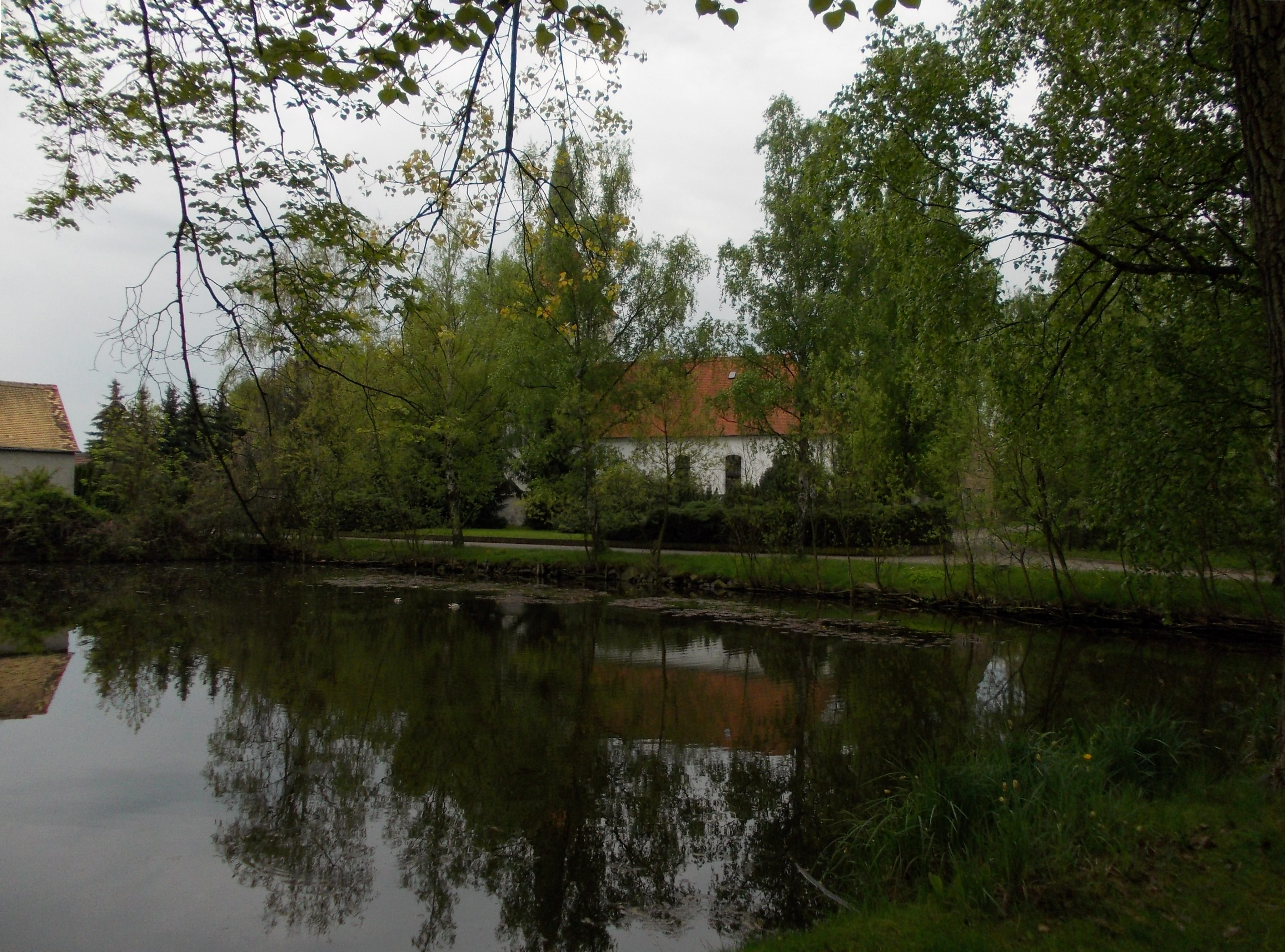 Mädchenteich ("girls' pond") at the church in Köhra (Belgershain, Leipzig district, Saxony)